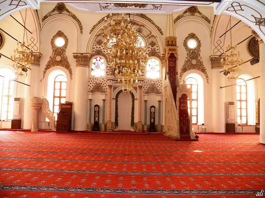 Interior view of the Hisar Mosque in İzmir